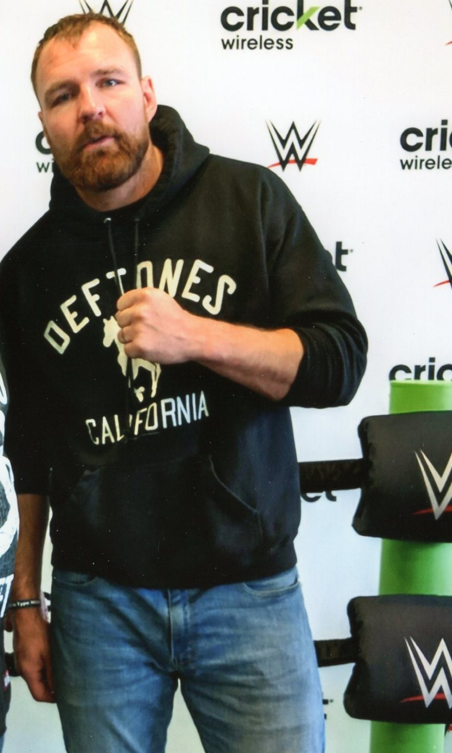 Wrestler Dean Ambrose in 2019 with a fan